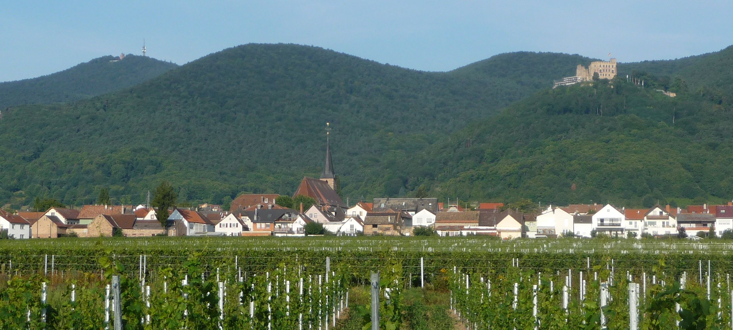 Diedesfeld